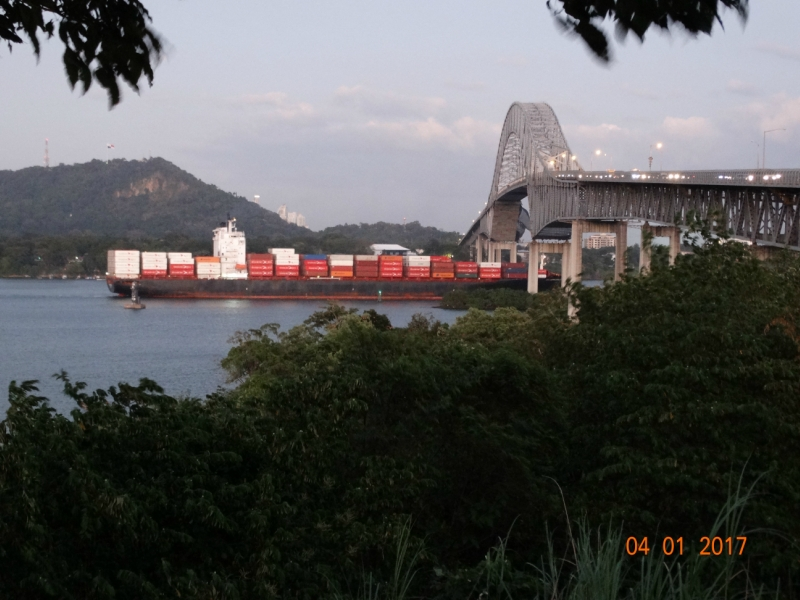 container ship passing the channel